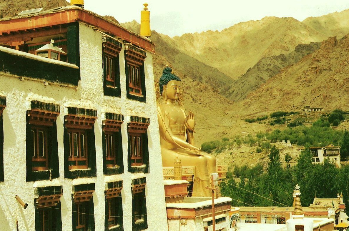 A view of the courtyard at Likir Monastery